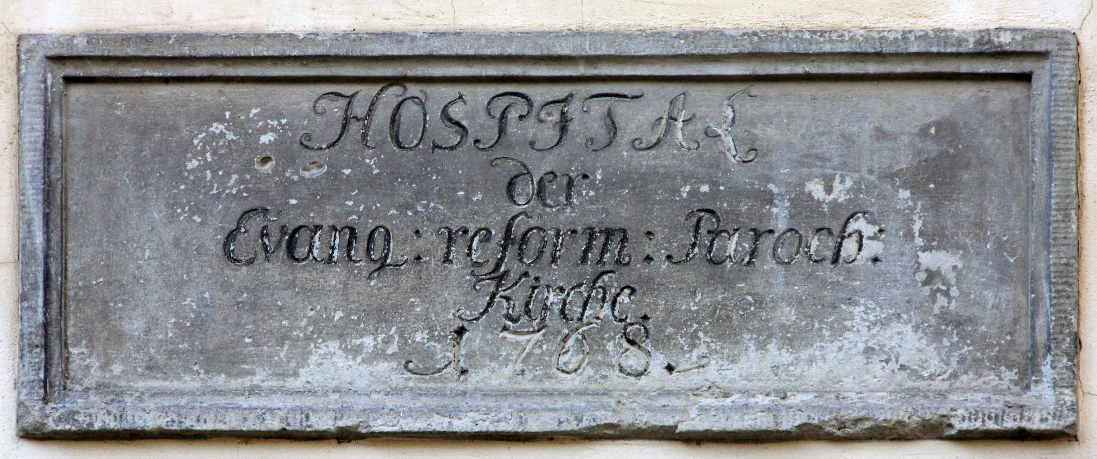 Memorial plaque, Hospital der Parochialkirche, Waisenstraße 28, Berlin-Mitte, Germany